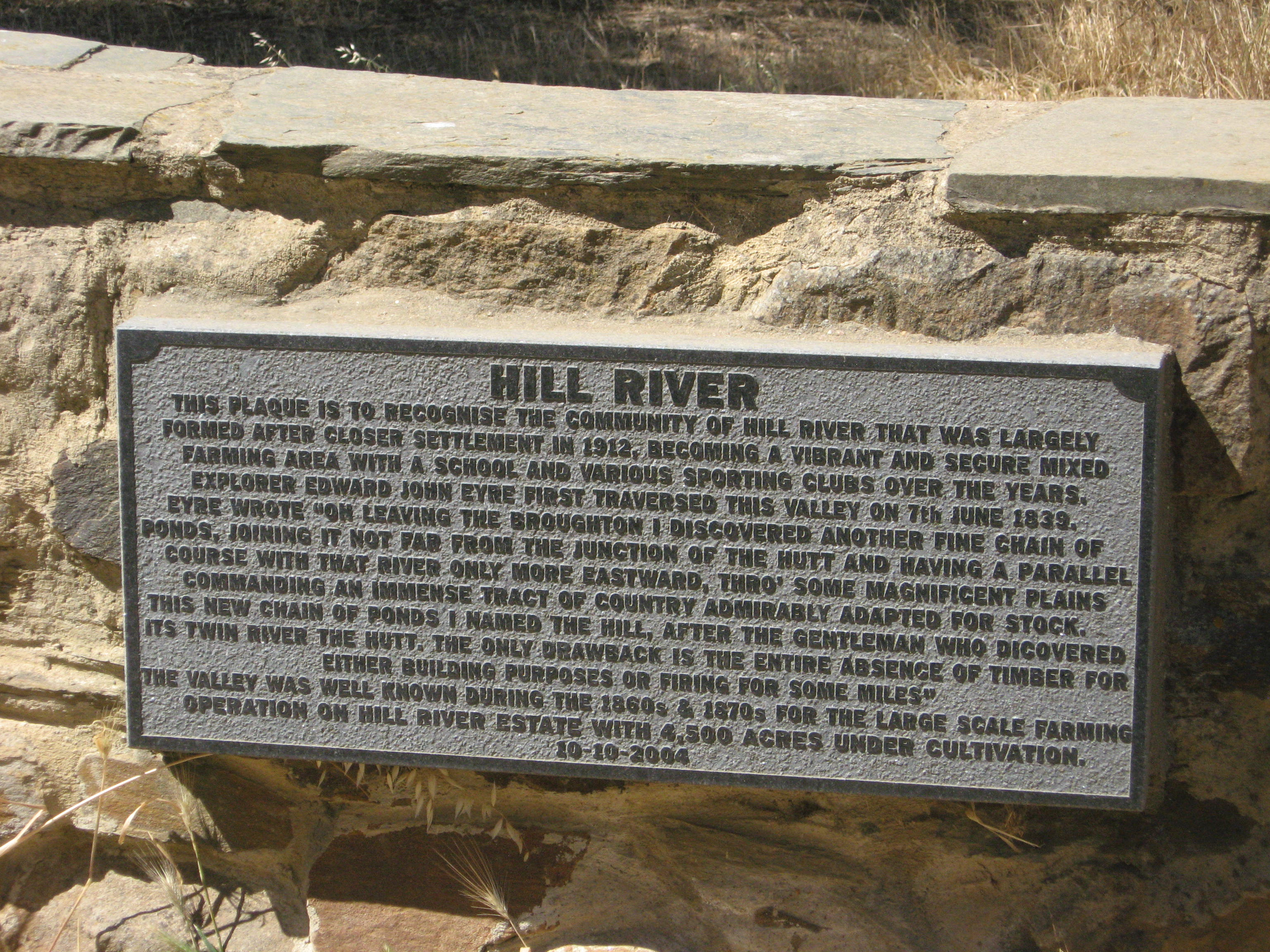 Plaque commemorating the Hill River district in South Australia.